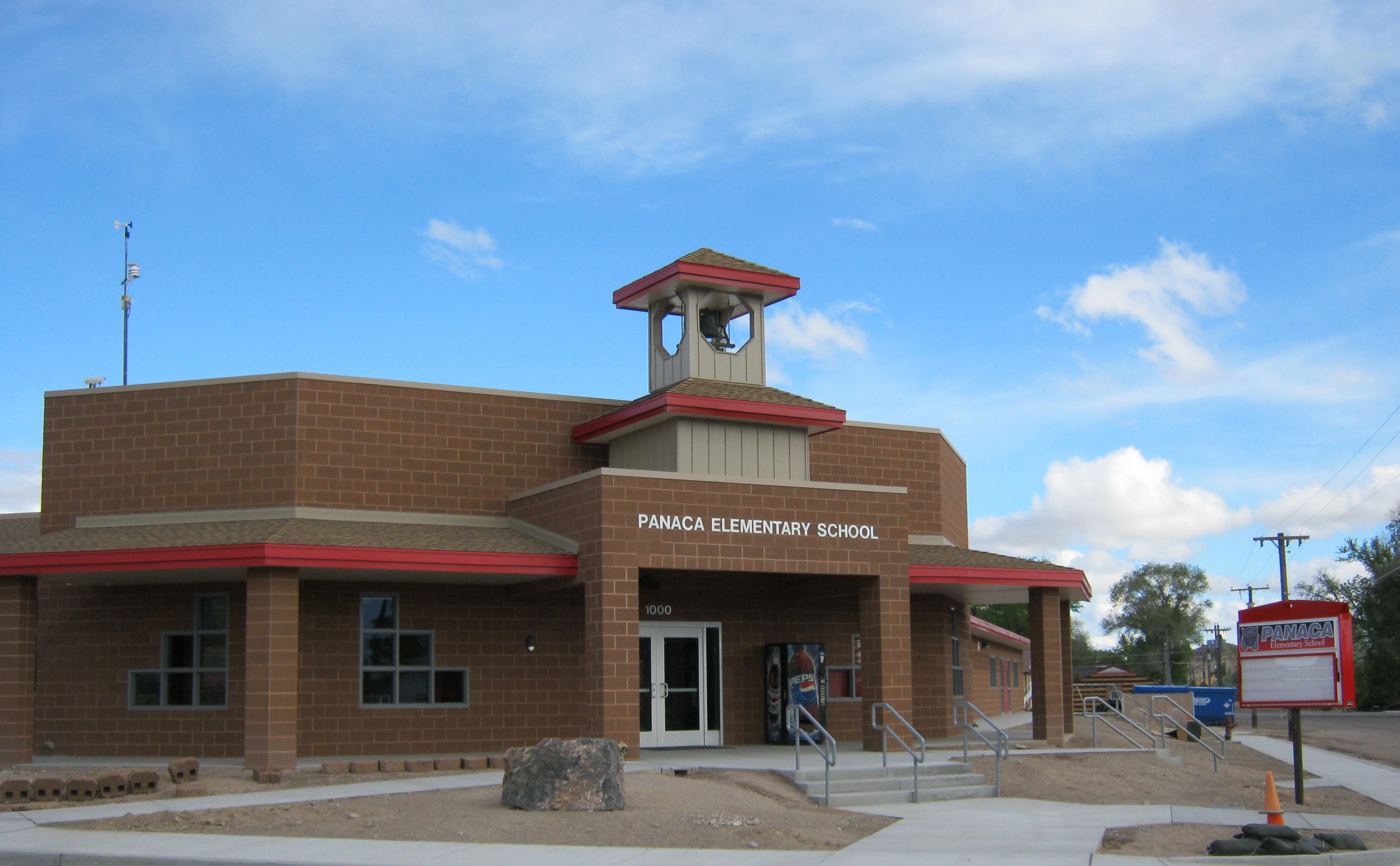 Panaca Elementary School in Panaca, Nevada, United States.